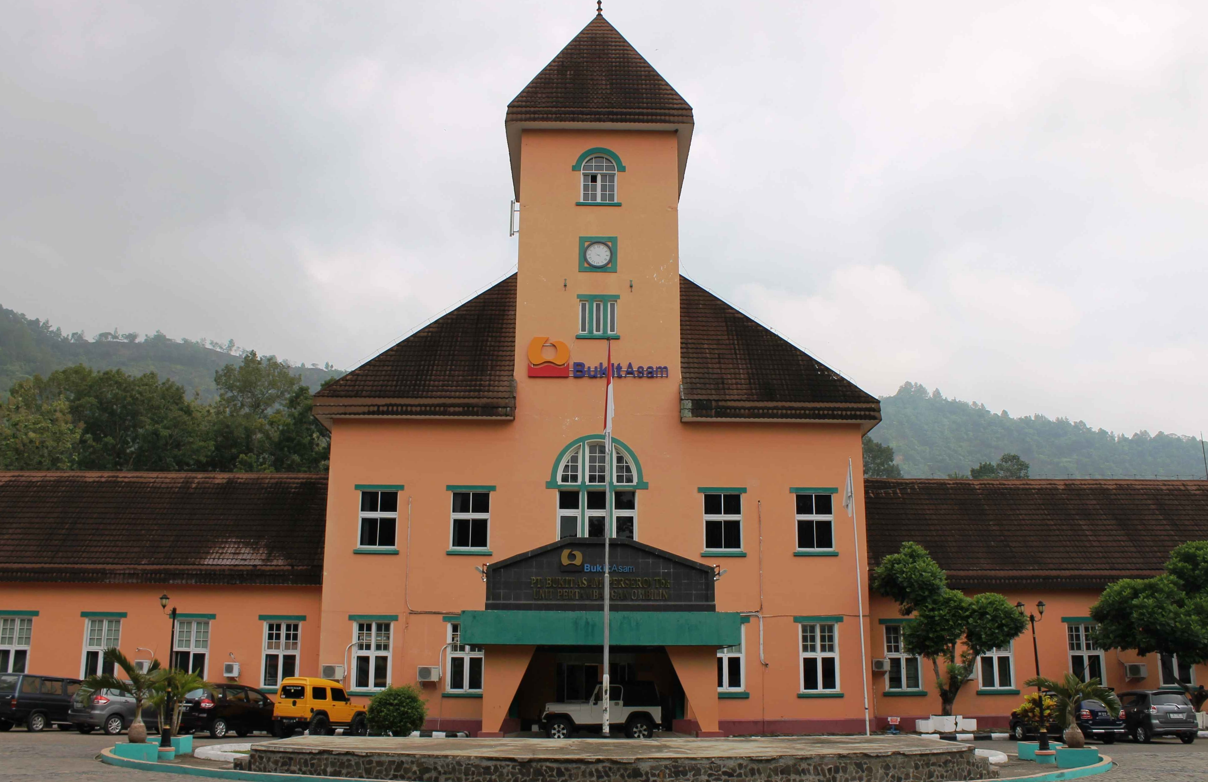 Bukit Asam Icon